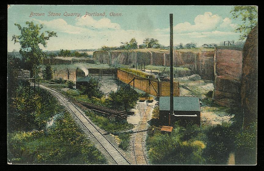 Postcard: Brownstone quarry, Portland, Connecticut, 1911 postmark. Caption: "Brown Stone Quarry, Portland, Conn." Other side of postcard shows postmark of December 1911, also says, along left side, "Publ. by The August Schmelzer Co., Meriden, Conn. No. 3 Made in Germany"